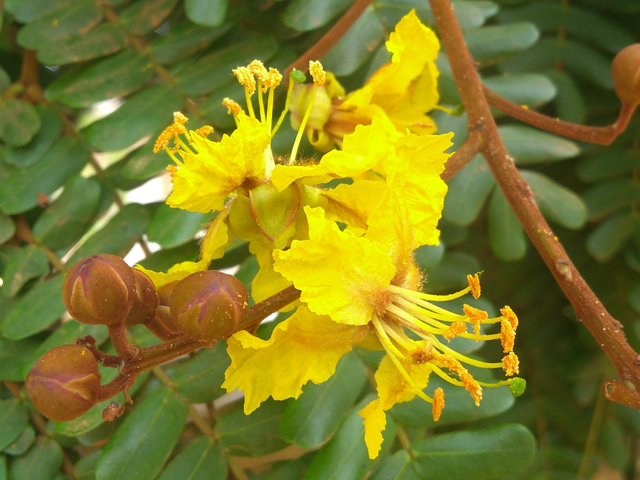 Yellow flamboyant flowe